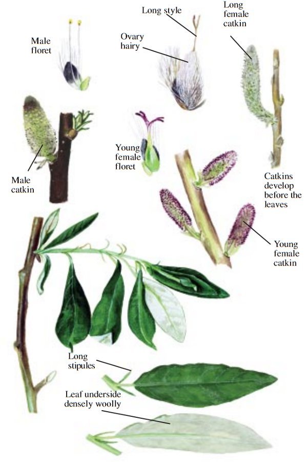 Summer descriptions of Salix alaxensis.